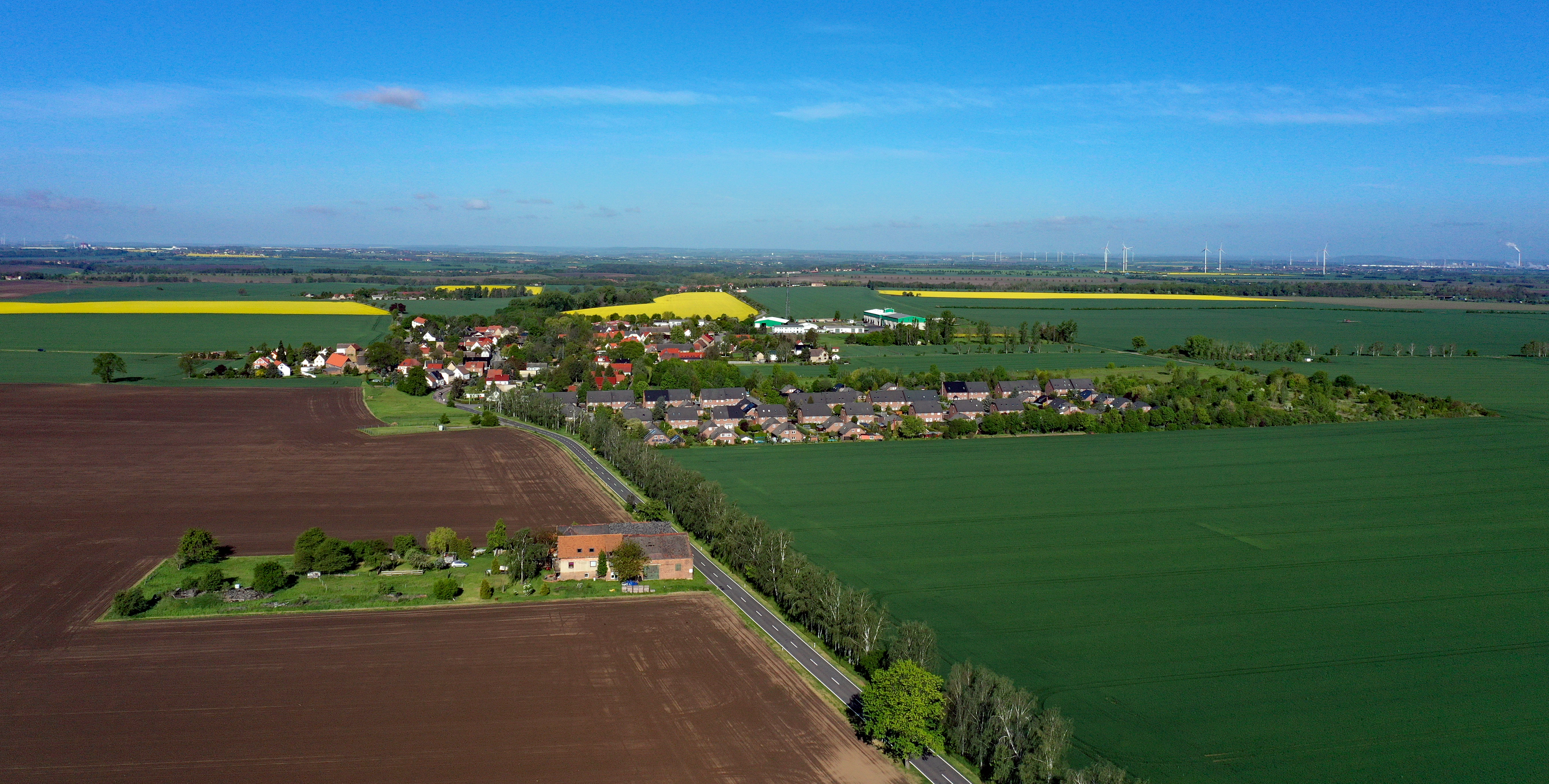 Starsiedel (Lützen, Saxony-Anhalt, Germany)